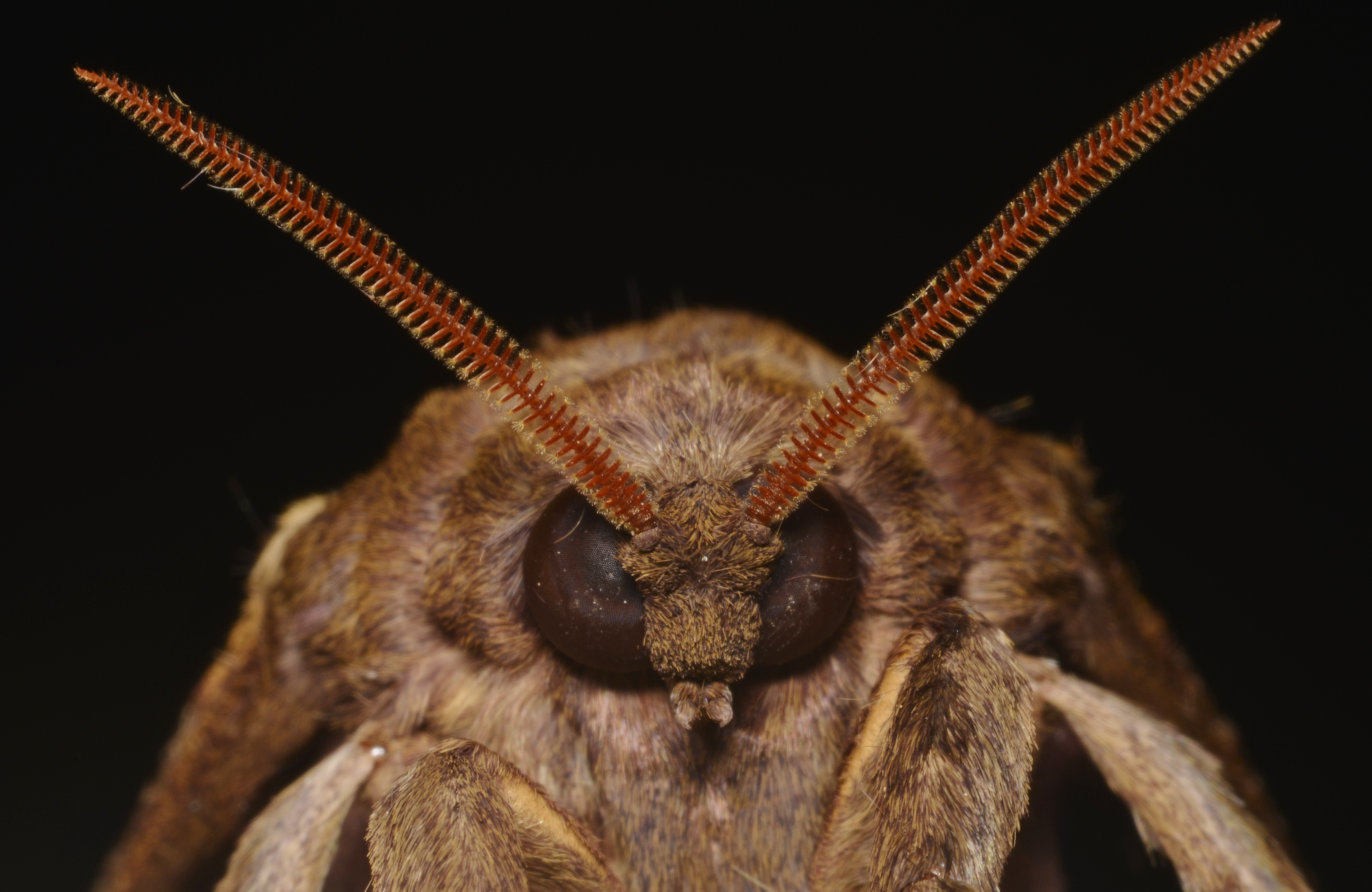 Moth portait